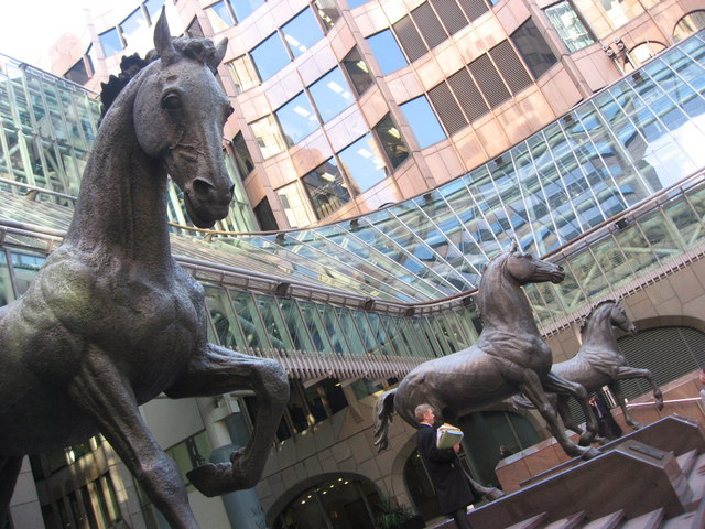 Three bronze horses by Althea Wynne (1936-2012) at the entrance to Minster Court, Mincing Lane, London EC3. The horses have been nicknamed "Sterling", "Dollar" and "Yen".